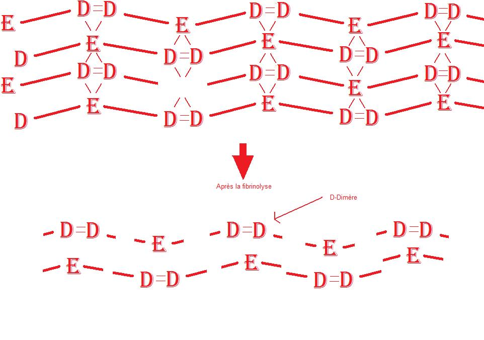 Shematic view of d-dimer creation